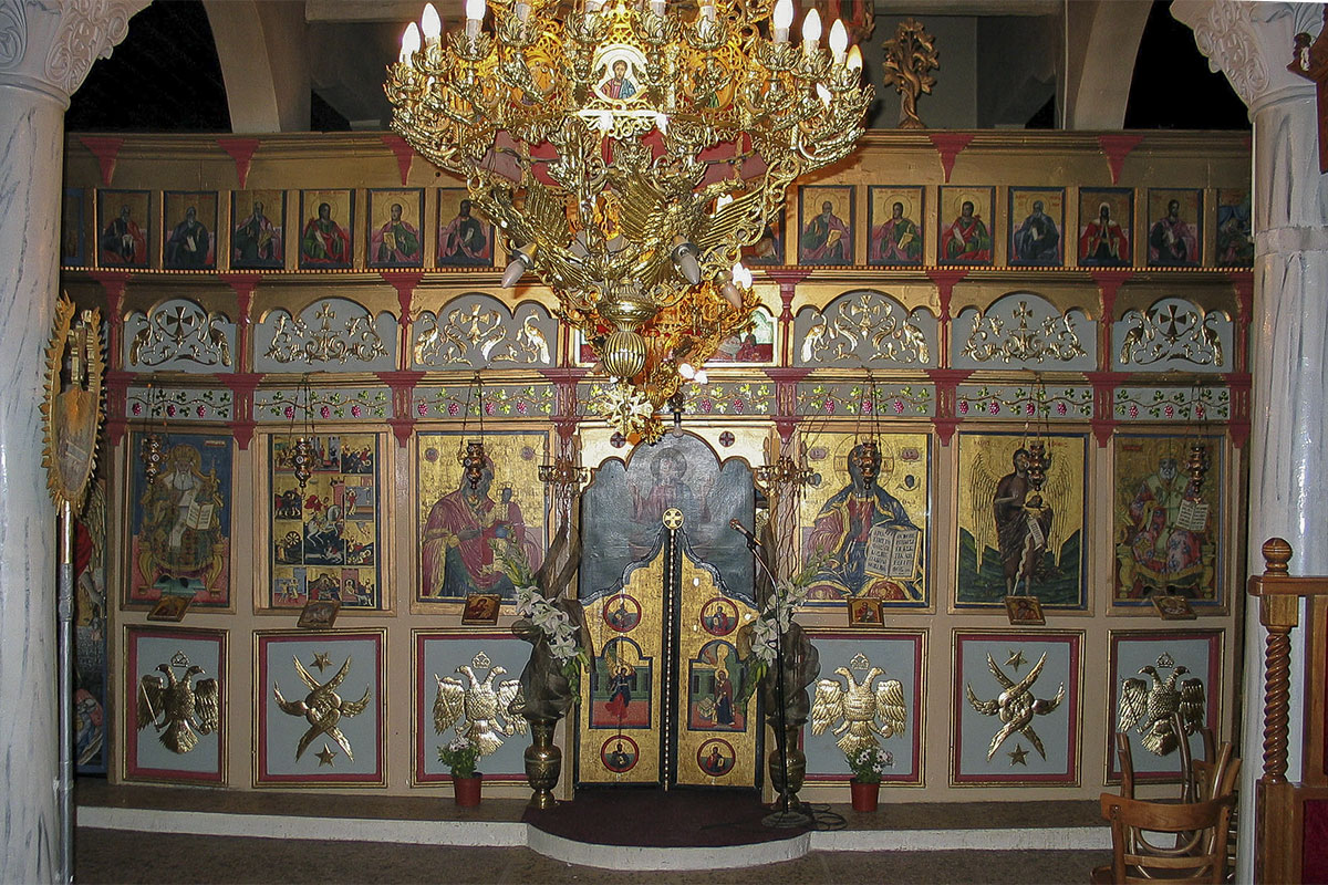 The interior of Ayios Georgios church in Kato Gefira Thessalonikis, Central Makedonia, Greece